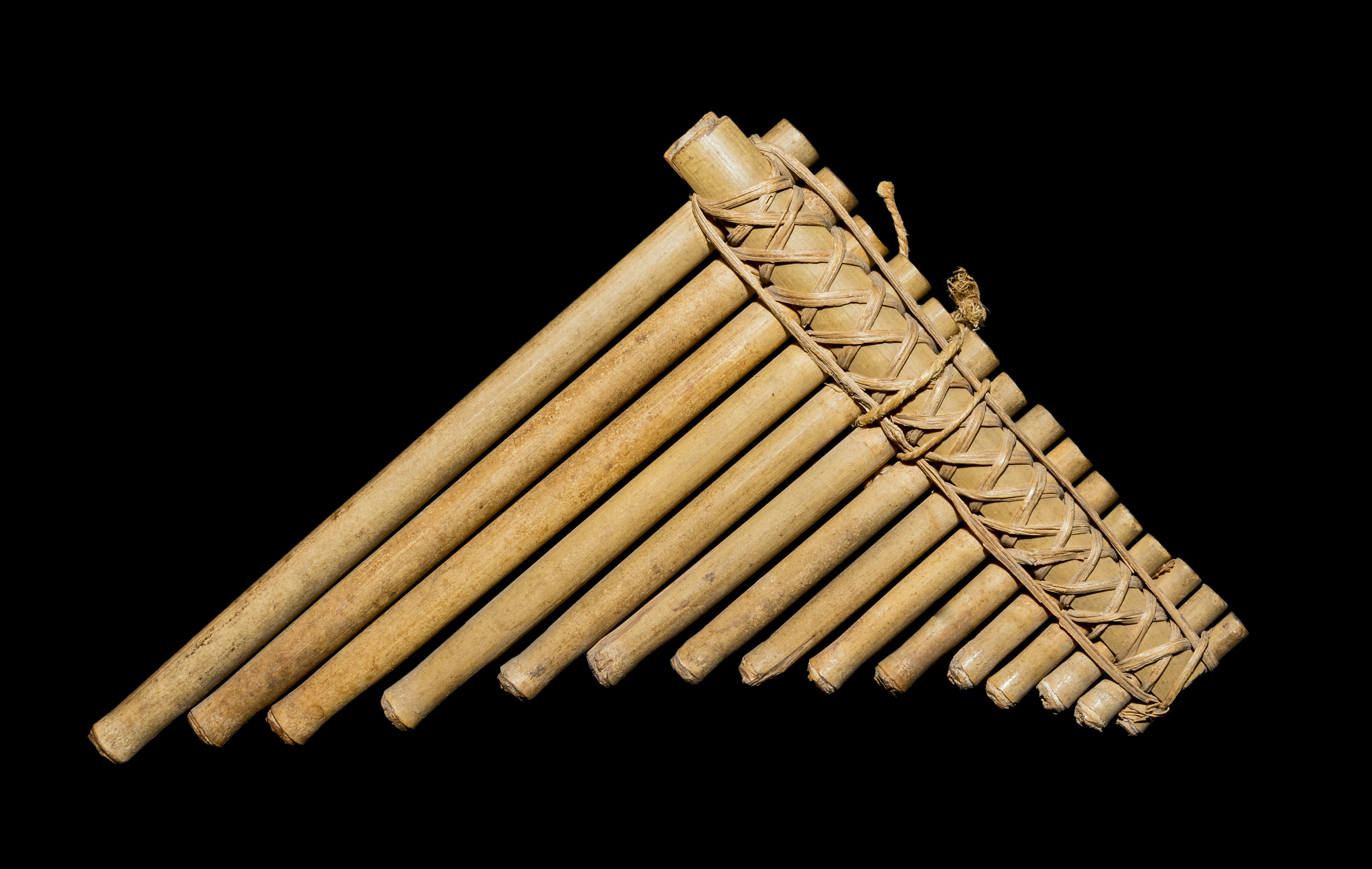 Pan flute Population : Solomon Islands Collector and collection: Gaston de Roquemaurel - The second travel of Dumont D'Urville (1837 - 1840) Date of collection: 1838 Materials: Reed, bamboo Size : 16.,5 x 13.5 x 3 cm